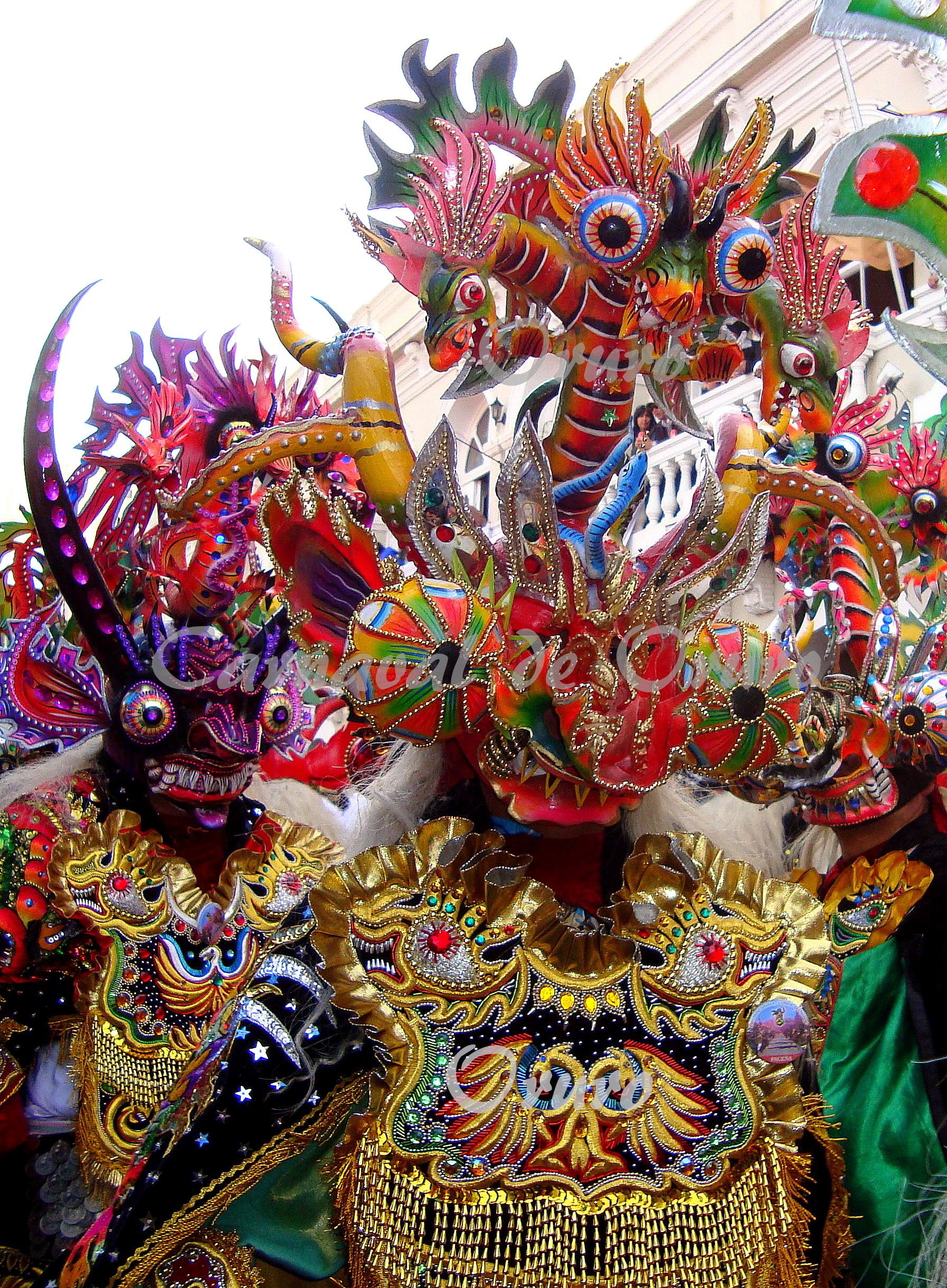 Dance "Diablada" from Oruro Bolivia